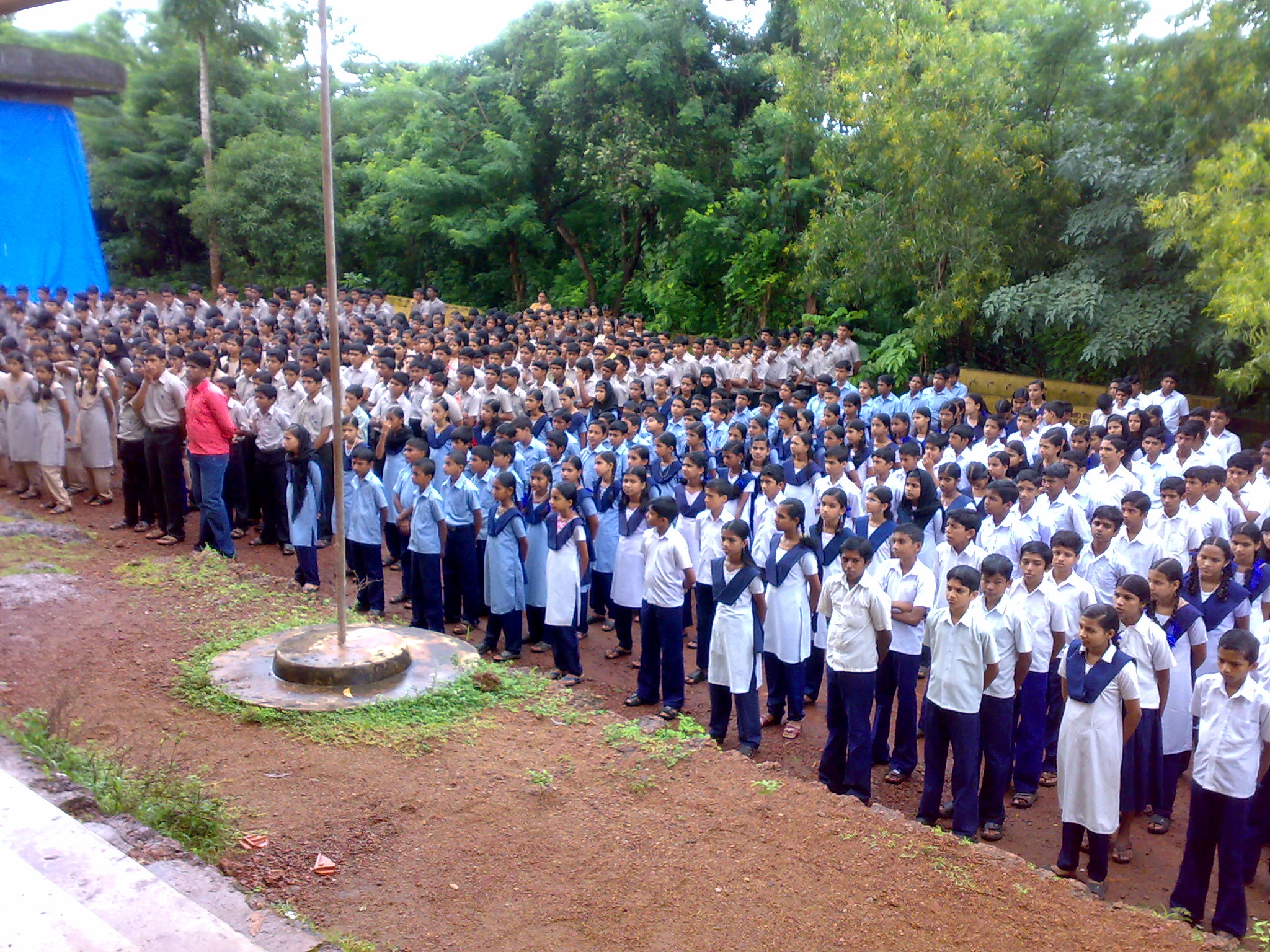 kadannappally